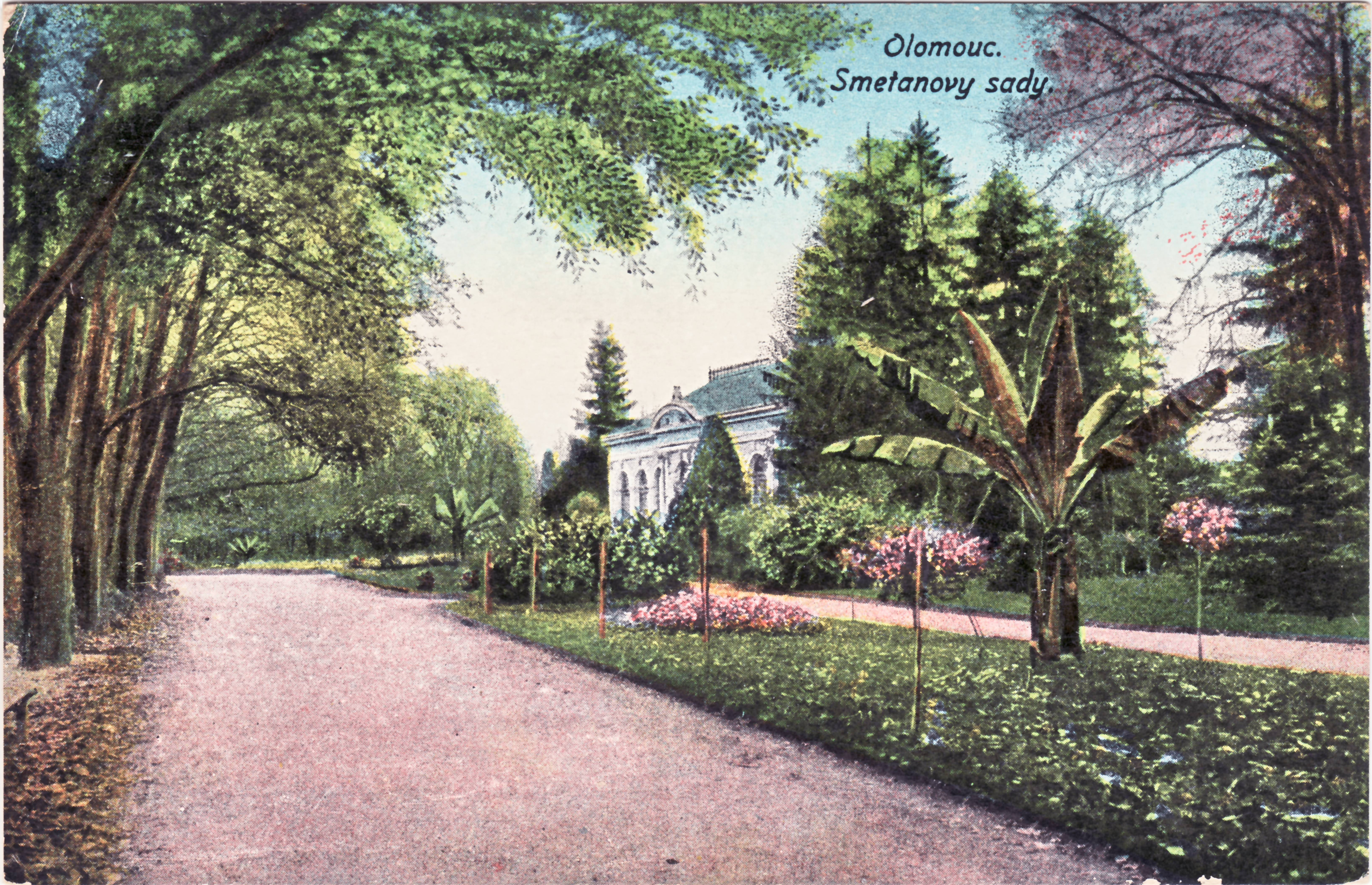 Historical postcard of Smetanovy sady in Olomouc.